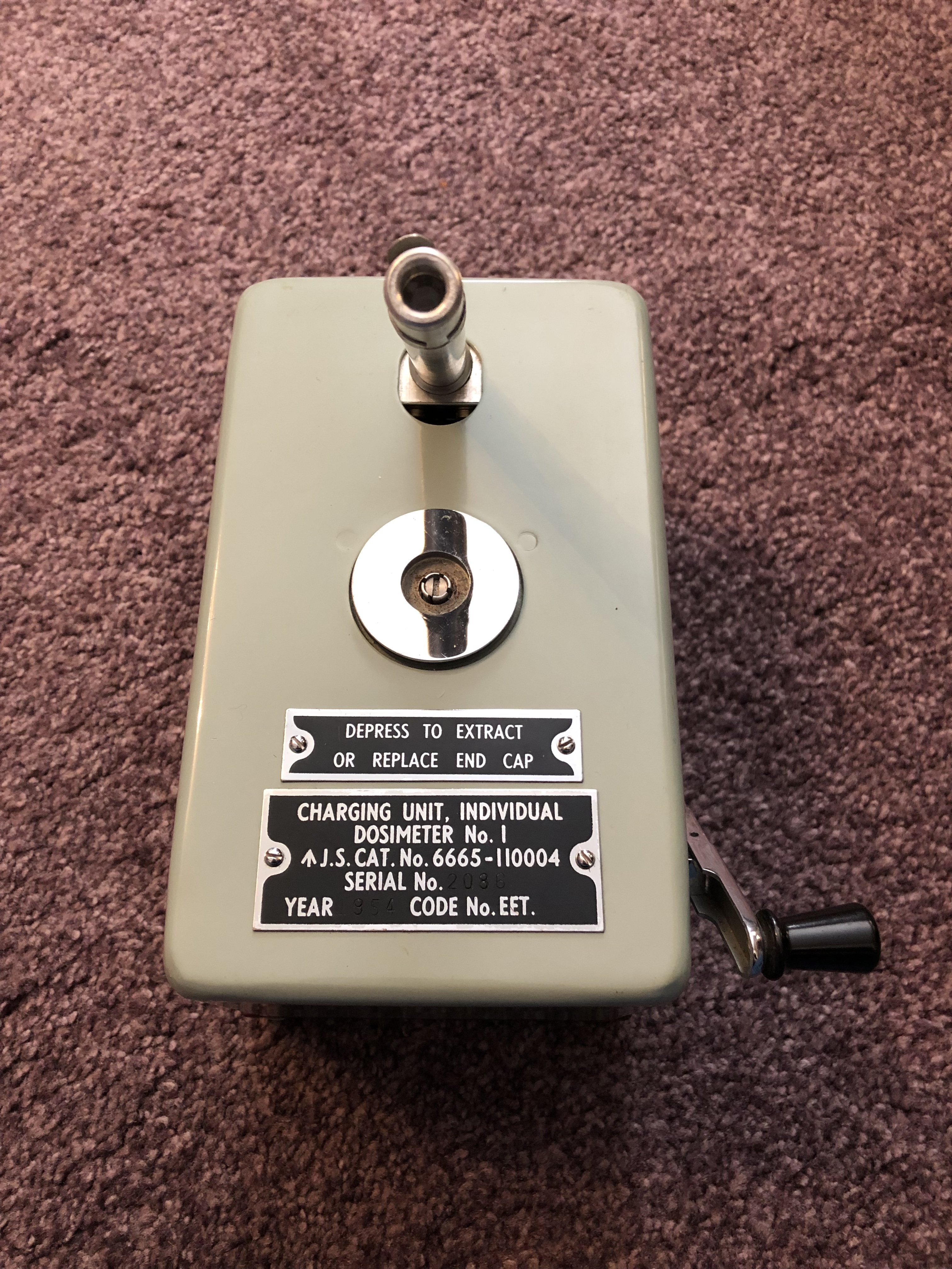 Photo showing the early type dosimeter charger.